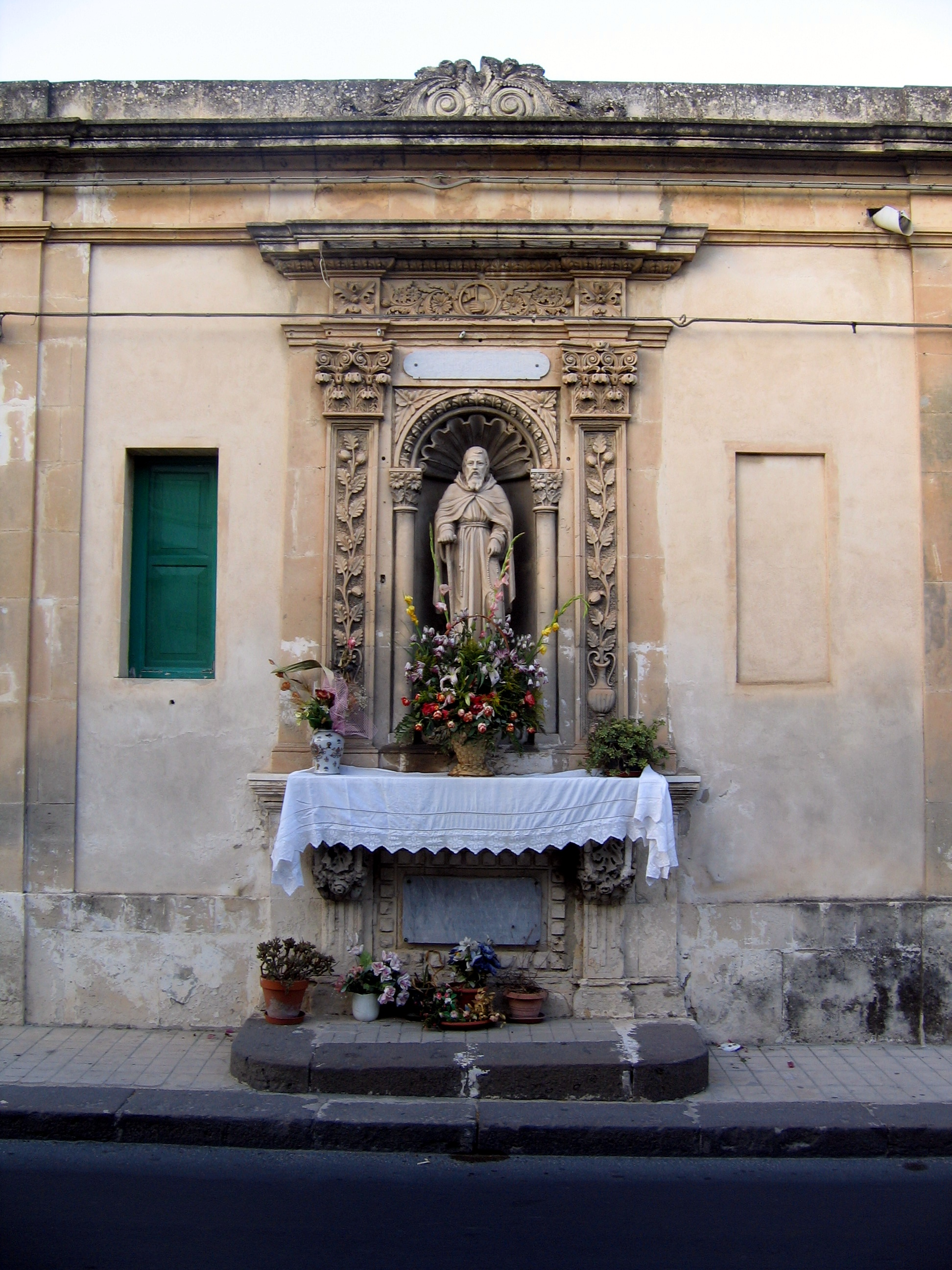 A statue of a saint on an altar in Noto, Sicily